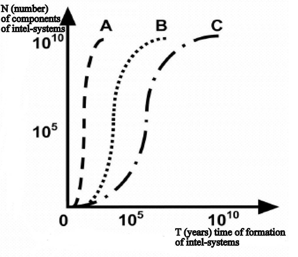 The iteration of the number of components in Intellectual systems. A - number of neurons in the brain during individual development (ontogenesis), B - number of people populations of humanity, C - number of neurons in the nervous systems of organisms during evolution (phylogenesis).